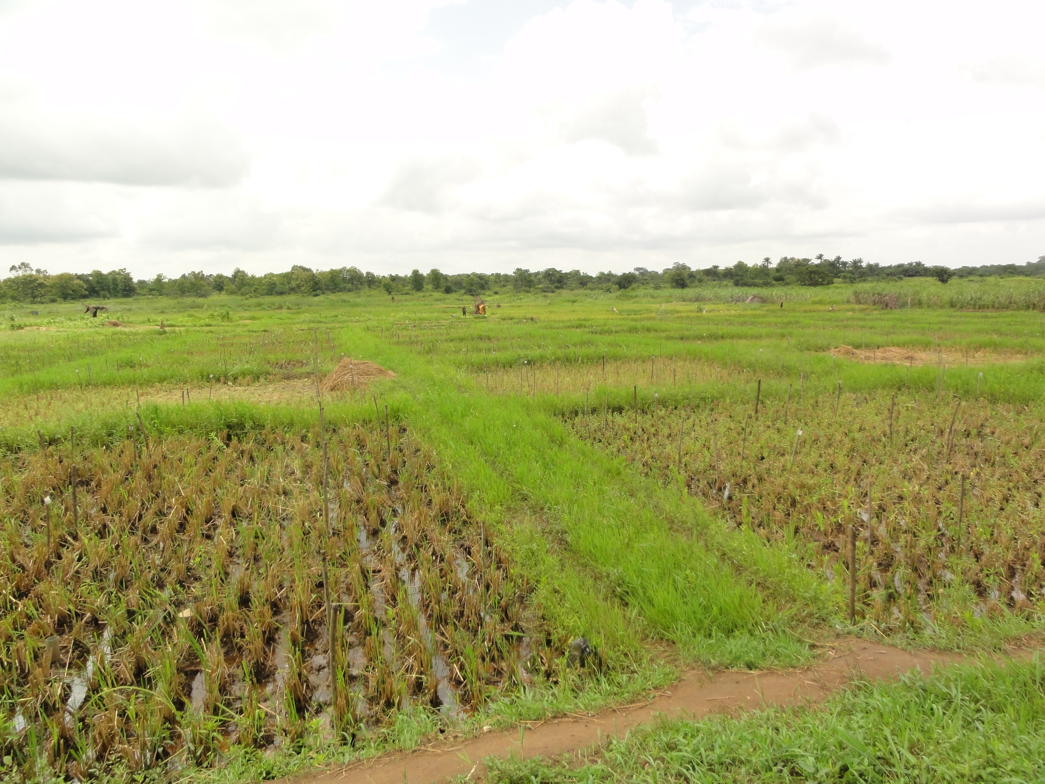 Rice cultivation in Benin